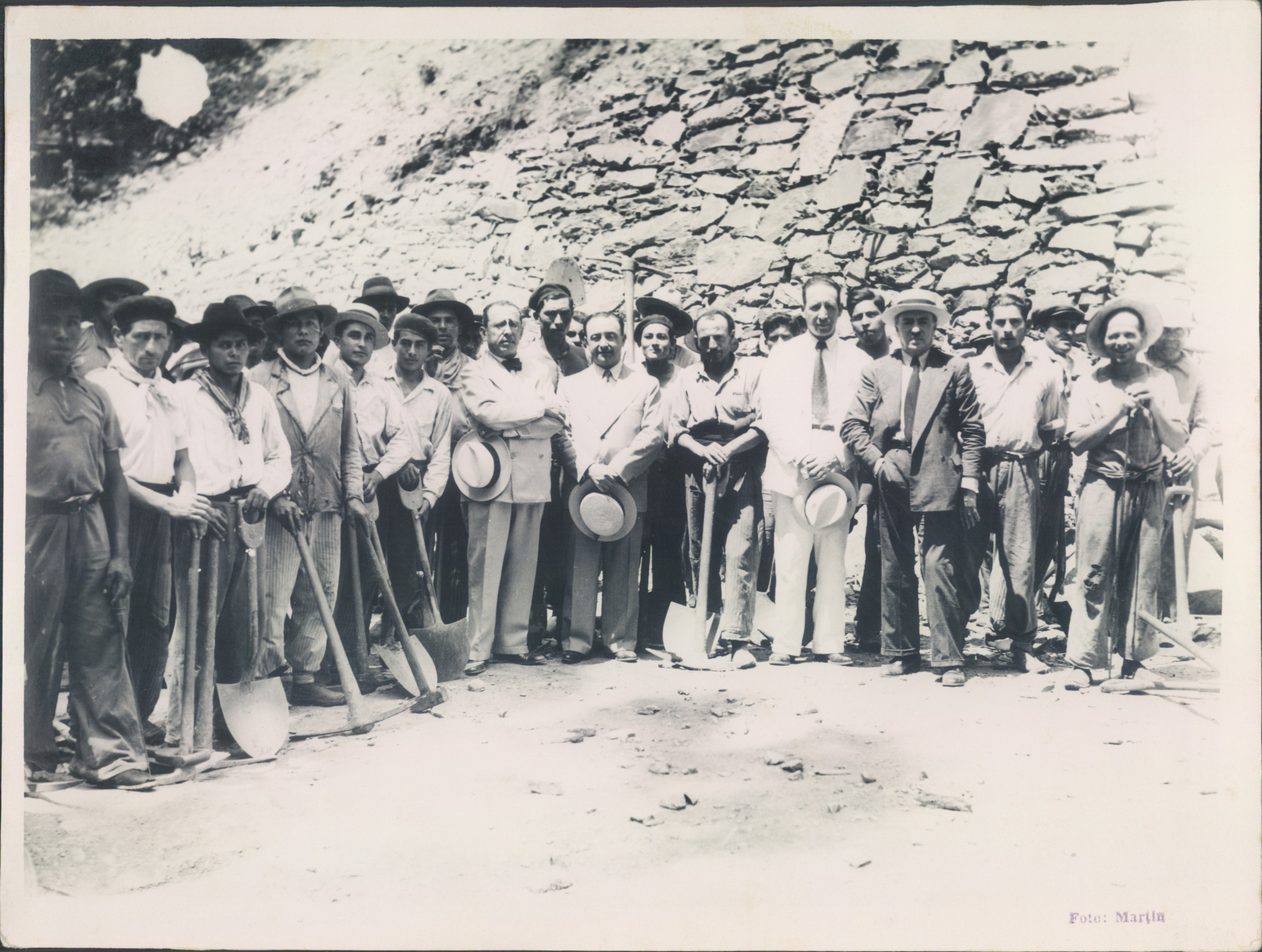 Governor Miguel Campero and workers in San Javier road. Year 1939